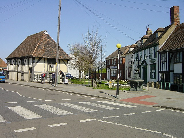 The Court Hall, Milton Regis. Built around 1450.